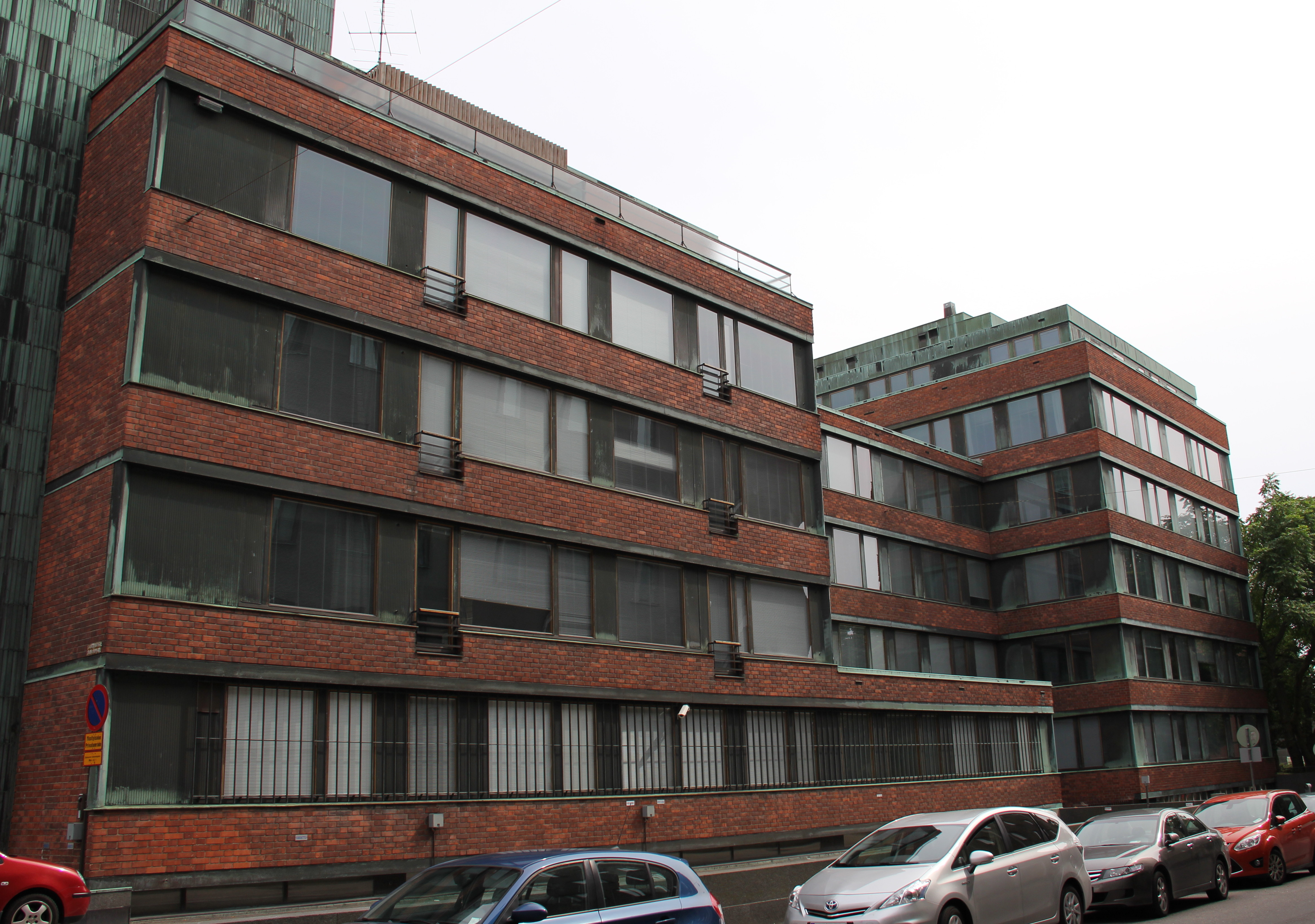 Kansaneläkelaitos headquarters, Taka-Töölö, Helsinki, Finland. Designed by Alvar Aalto, completed in 1956. - Facade towards Minna Canthin katu. Photo taken facing south.